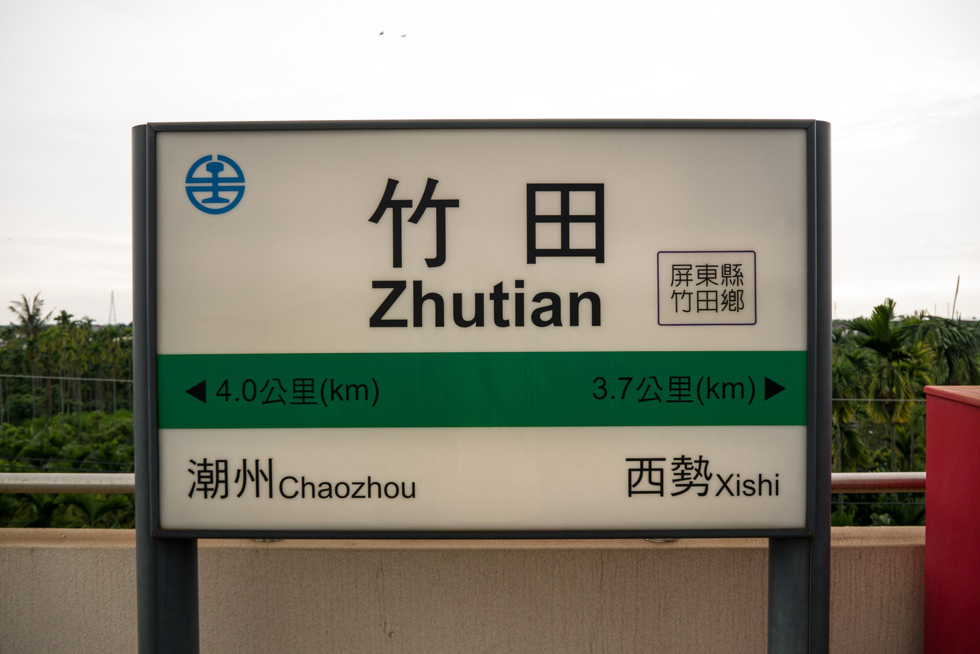 竹田車站 TRA Jhutian Station